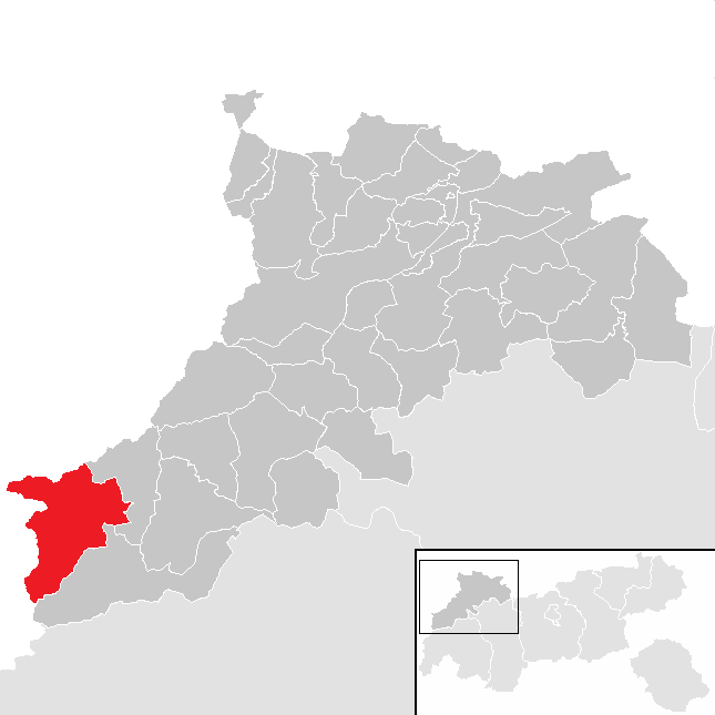 District Reutte